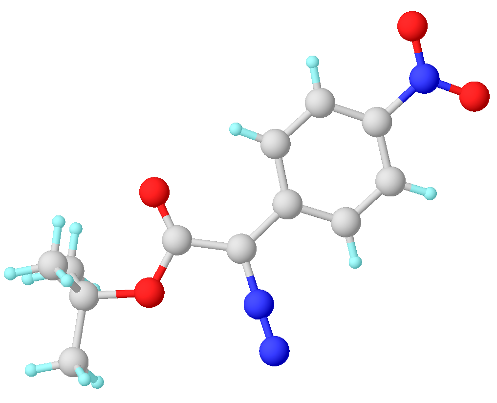 structure of t-BuO2CC(N2)C6H4NO2